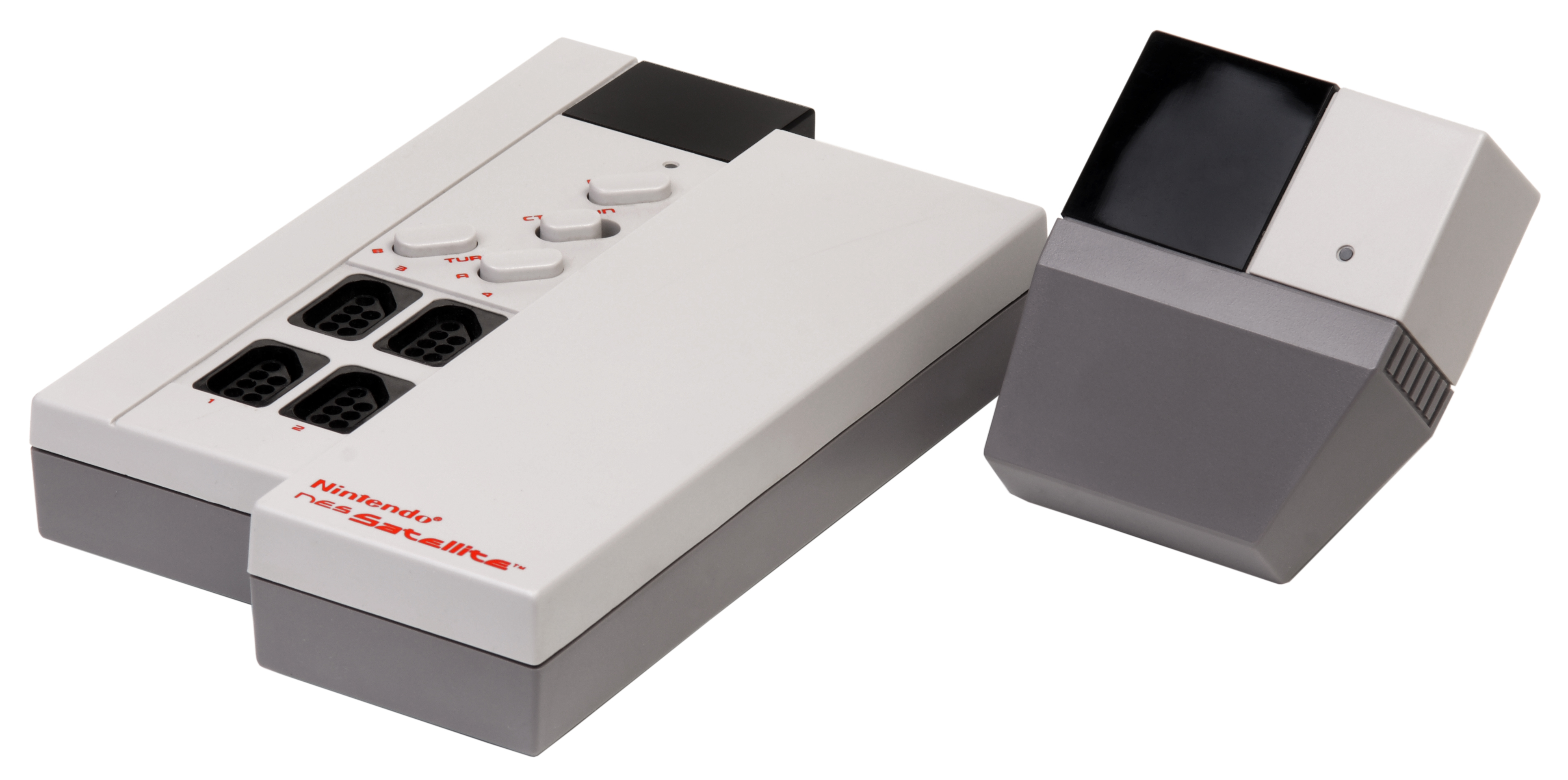 The NES Satellite, a four-player adapter that also had wireless functionality and turbo buttons.